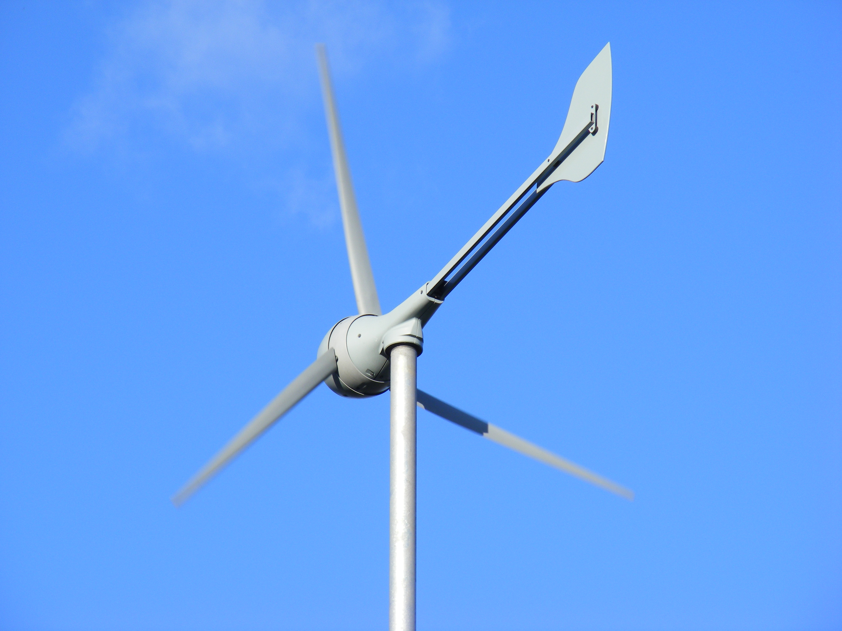 Evance R9000 5kW small wind turbine near Machynlleth, Wales